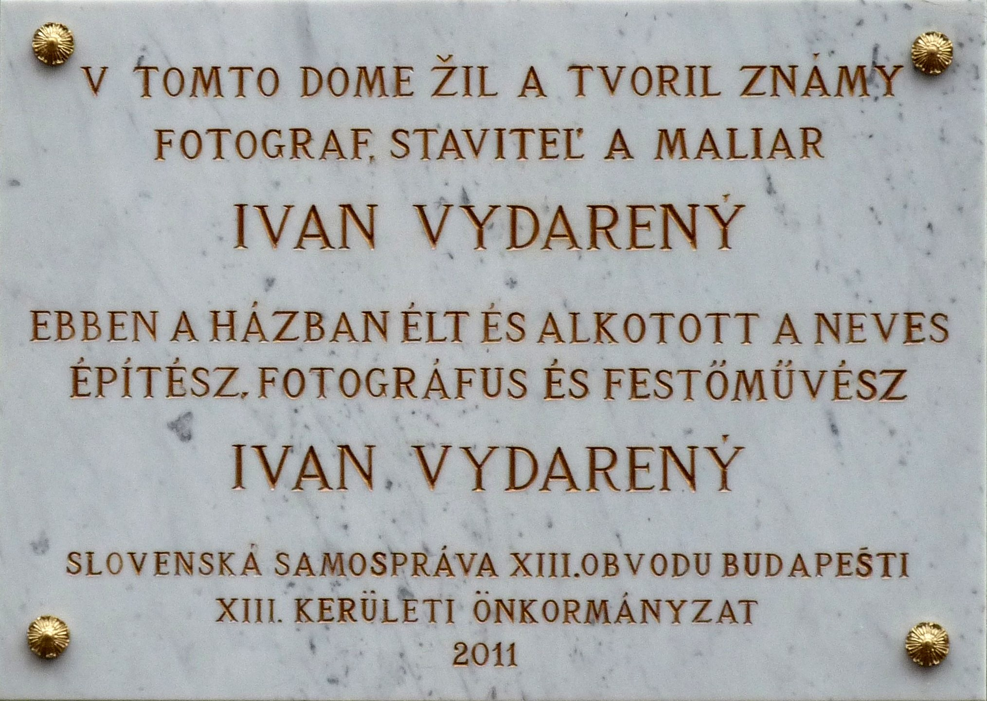 Commemorative plaque to Mr. Ivan Vydarený (Hungarian : Vydarény Iván) (1887-1982) Slovak nationality architect, painter and photographer. It is affixed on the wall of his former home. The plaque was unveiled on 24th November 2011 at the initiative of the municipality of the Slovak minority in the 13th district of Budapest. (Budapest, District XIII, Visegrádi Street Nr 53)